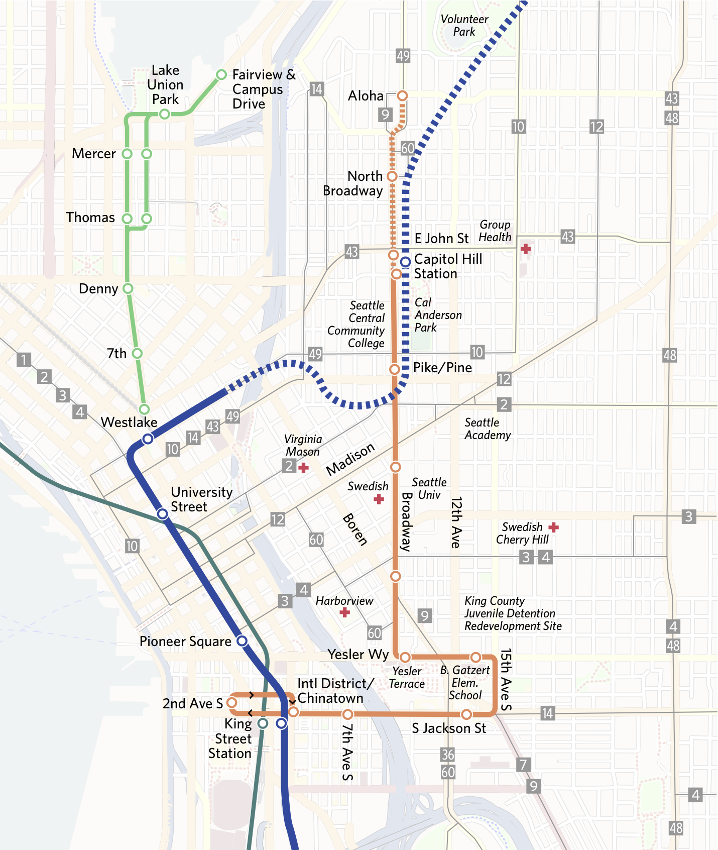 First Hill Streetcar Map showing Broadway, Boren, and 12th Ave options in orange, and Link light rail in blue.